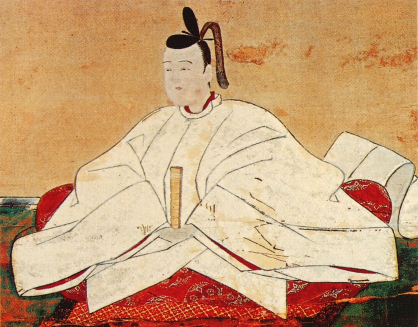 豊臣秀頼 (とよとみ ひでより)。豊臣秀吉の子。Toyotomi Hideyori (1593 - June 5, 1615) was the son and designated successor of Toyotomi Hideyoshi, the general who first united all of Japan.